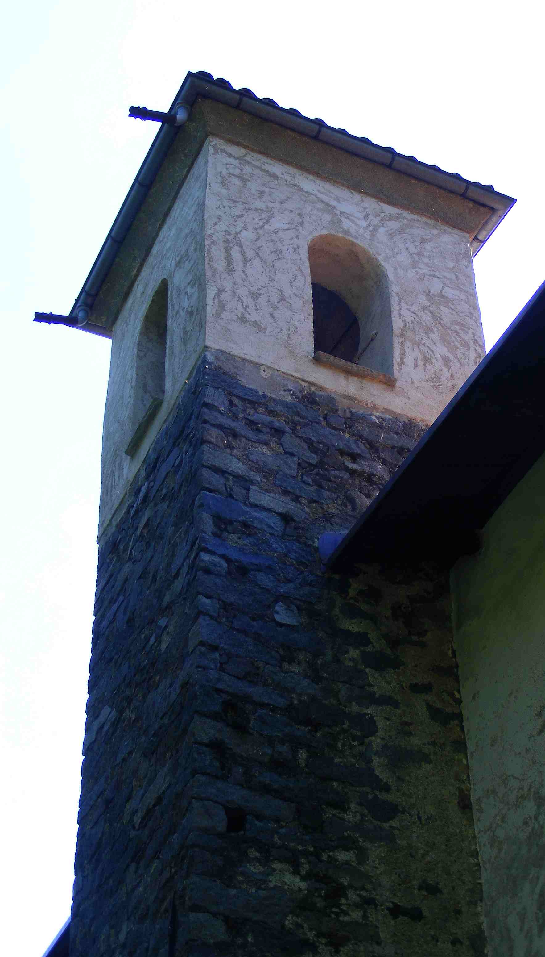 Mazzucco sanctuary: the small bell tower (BI, Italy)